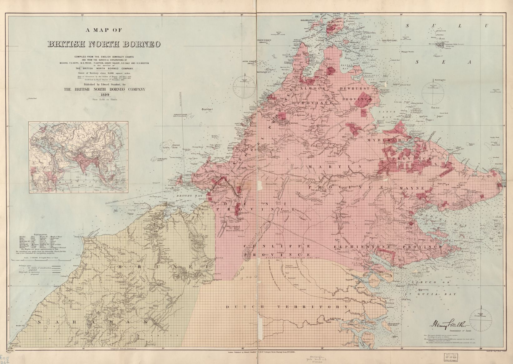 A map of British North Borneo